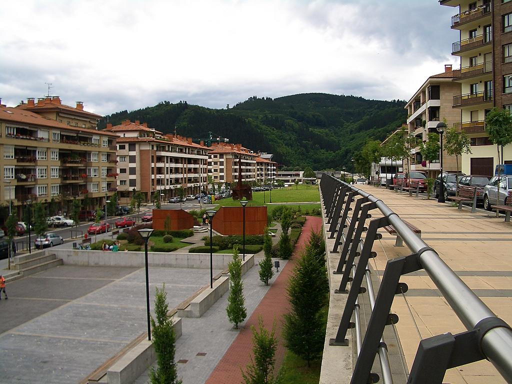 A boulevard in Azkoitia's city center, south of the river and the old central square.